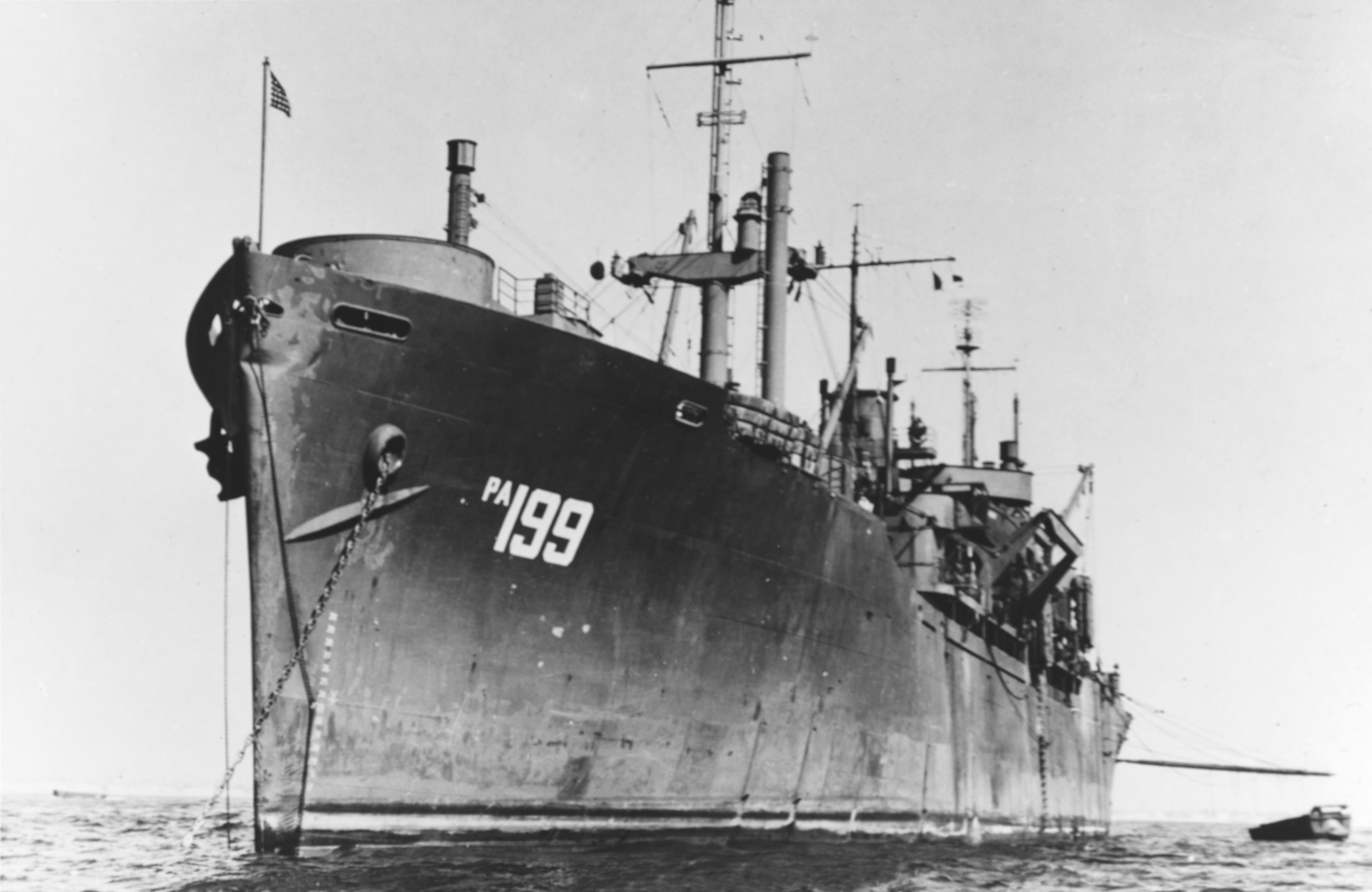 The U.S. Navy attack transport USS Magoffin (APA-199) at anchor, circa in 1945.